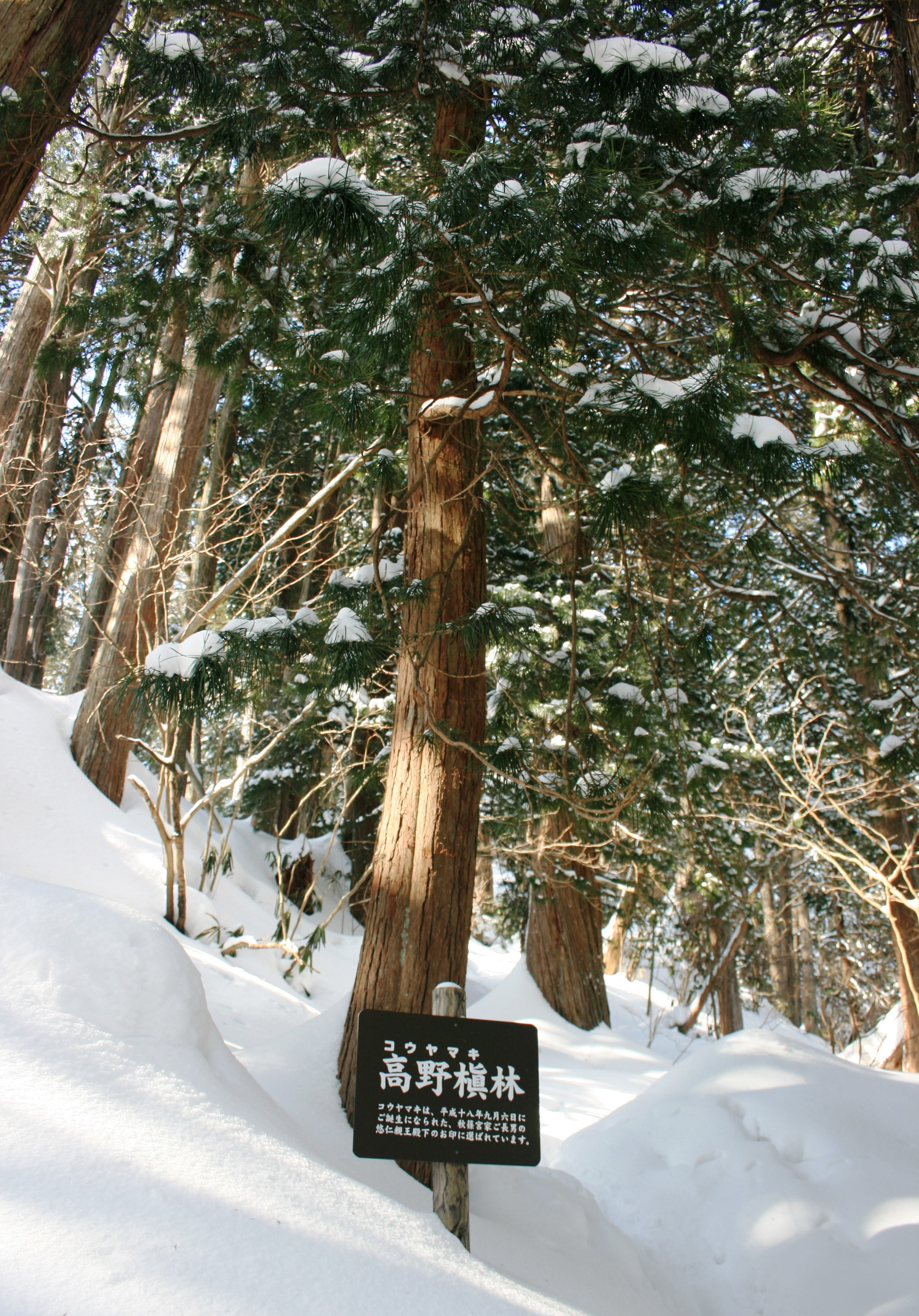 Sciadopitys verticillata in Mount Nagiso